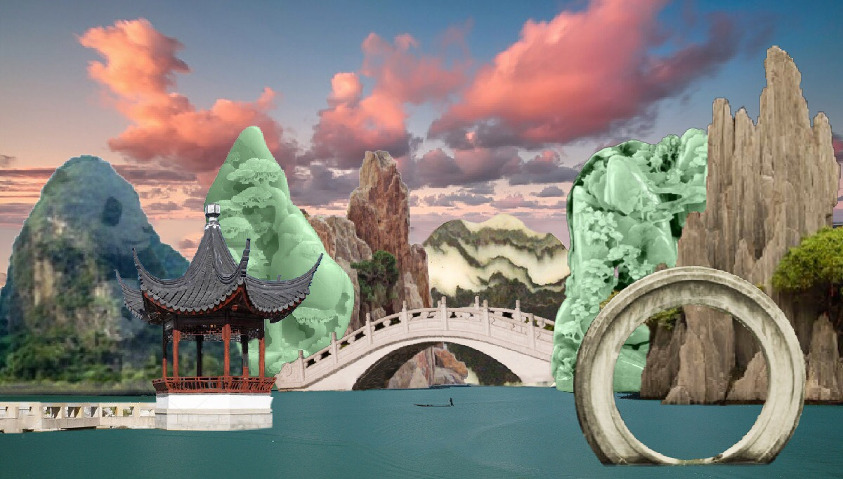 Chinese Garden enlarged.